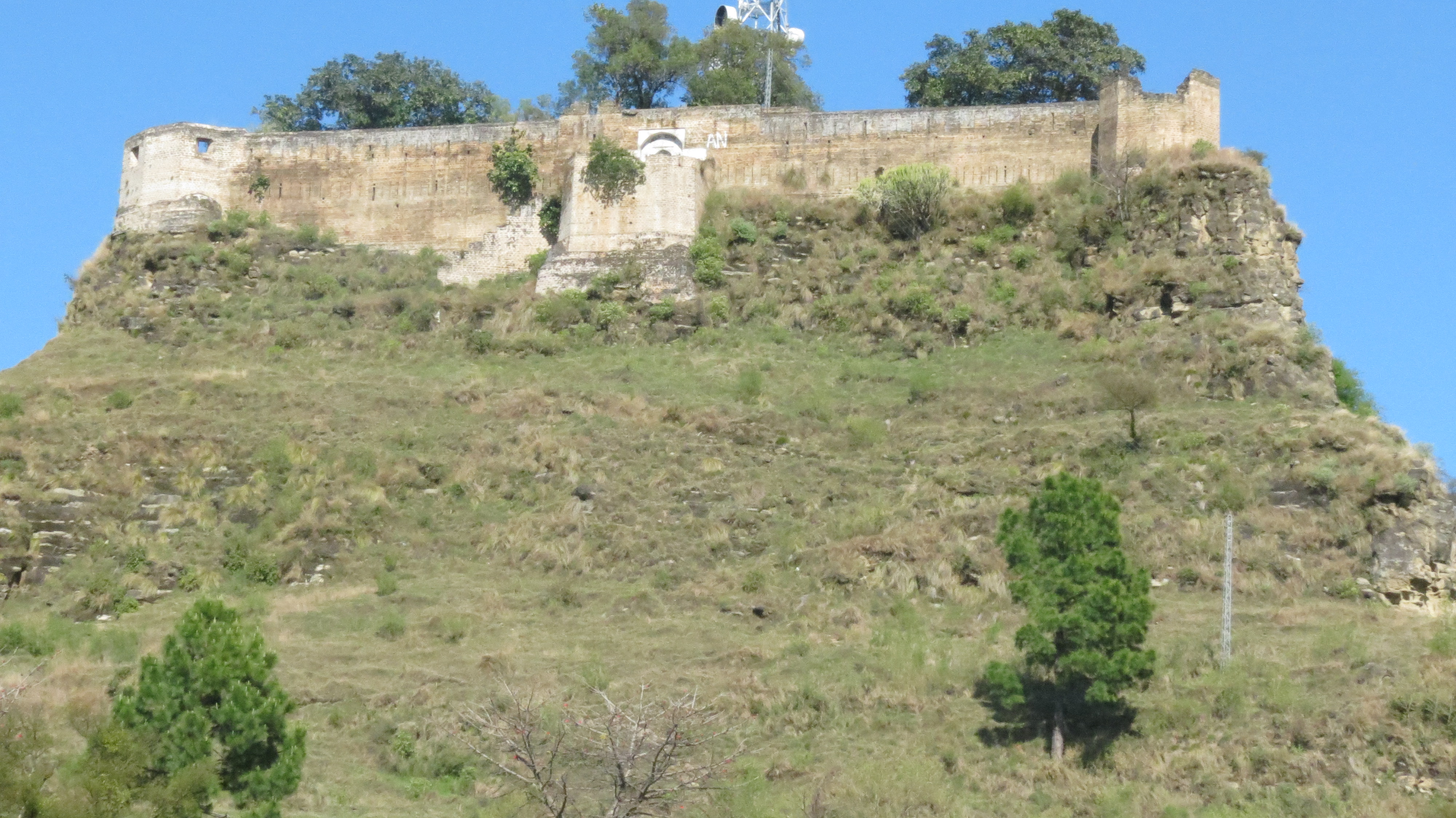 It is located almost 120 kilometers from Rawalpindi, Pakistan. It was constructed back in 1460 a.d.